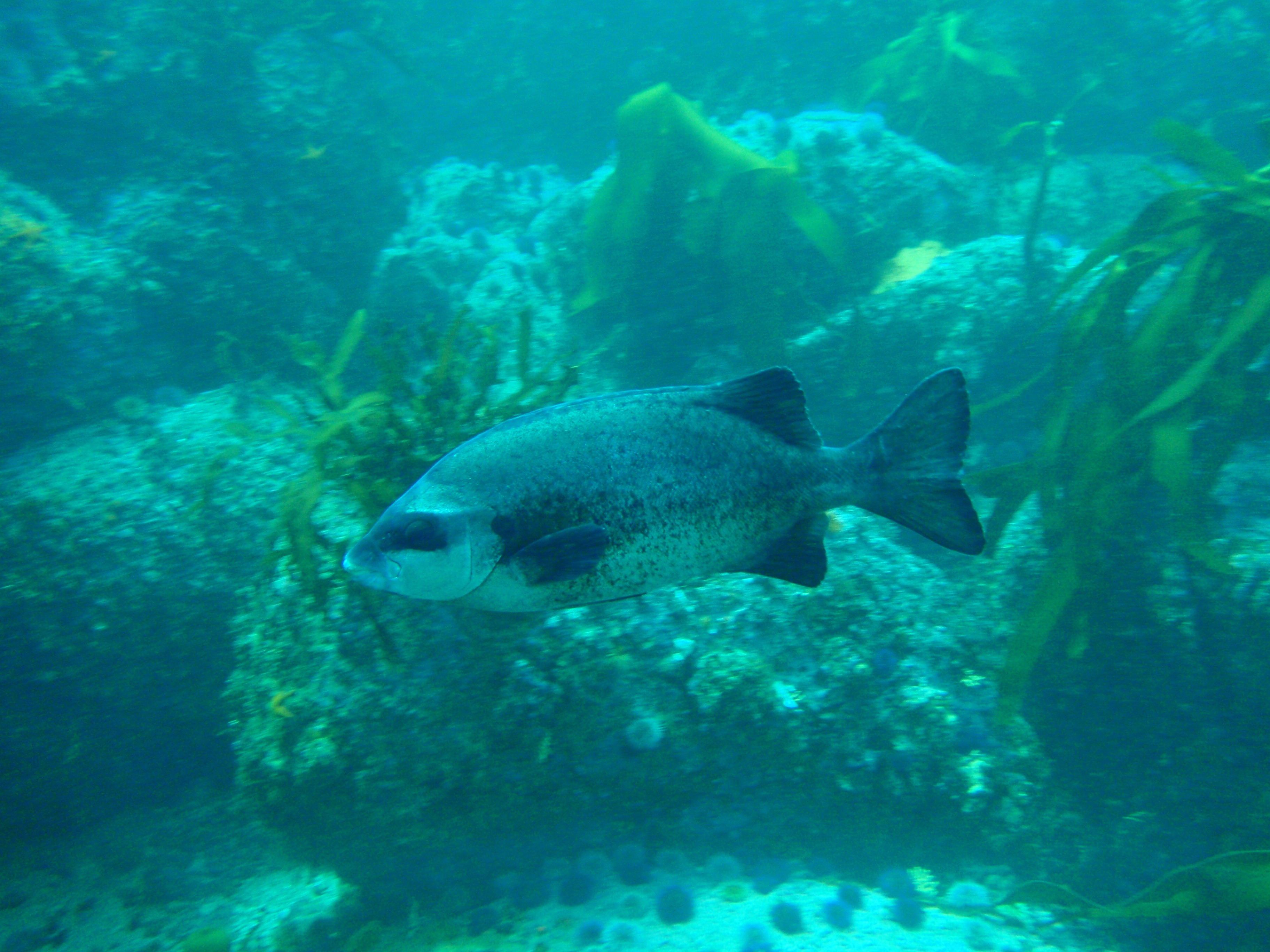 Castle Rocks, Cape Peninsula.